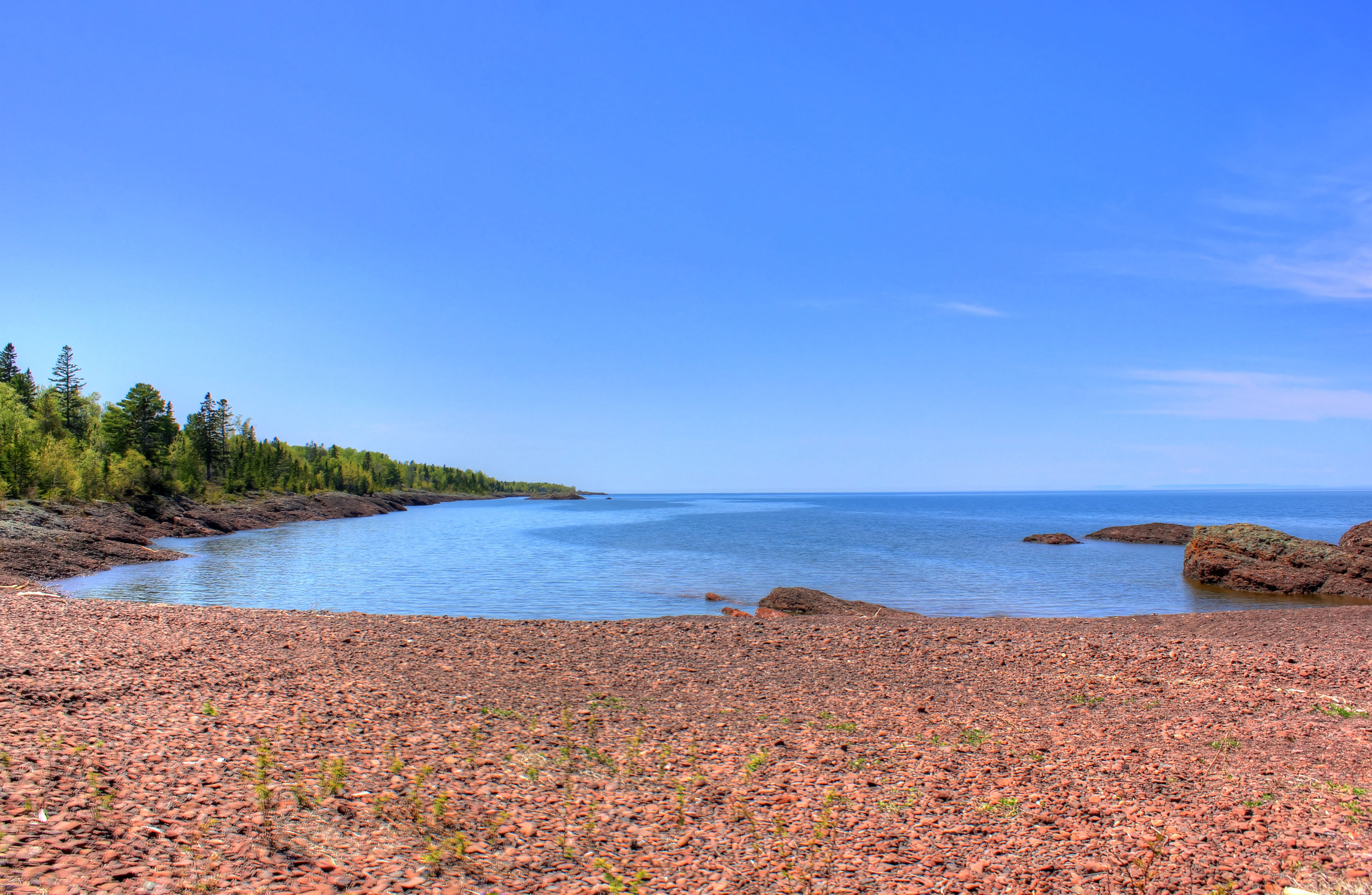 Free Public Domain Stock Photos of the Upper Peninsula(The UP) in Michigan with its shorelines, parks, and wilderness areas. Free public domain photo of a small inlet or bay of Lake Superior